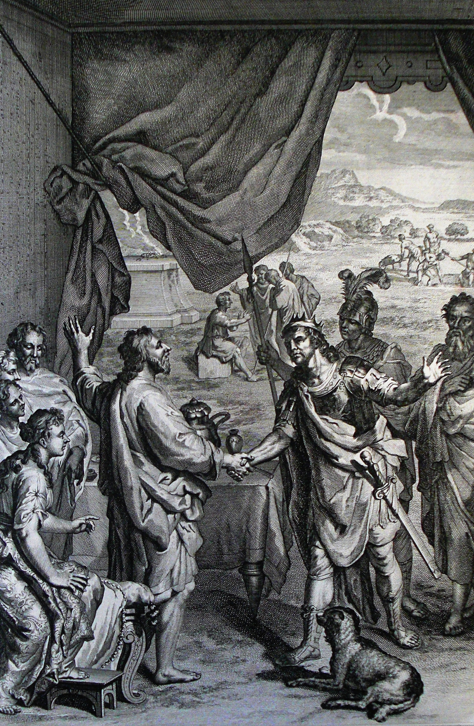 In the collection of Revd. Philip De Vere at St. George’s Court, Kidderminster, England.